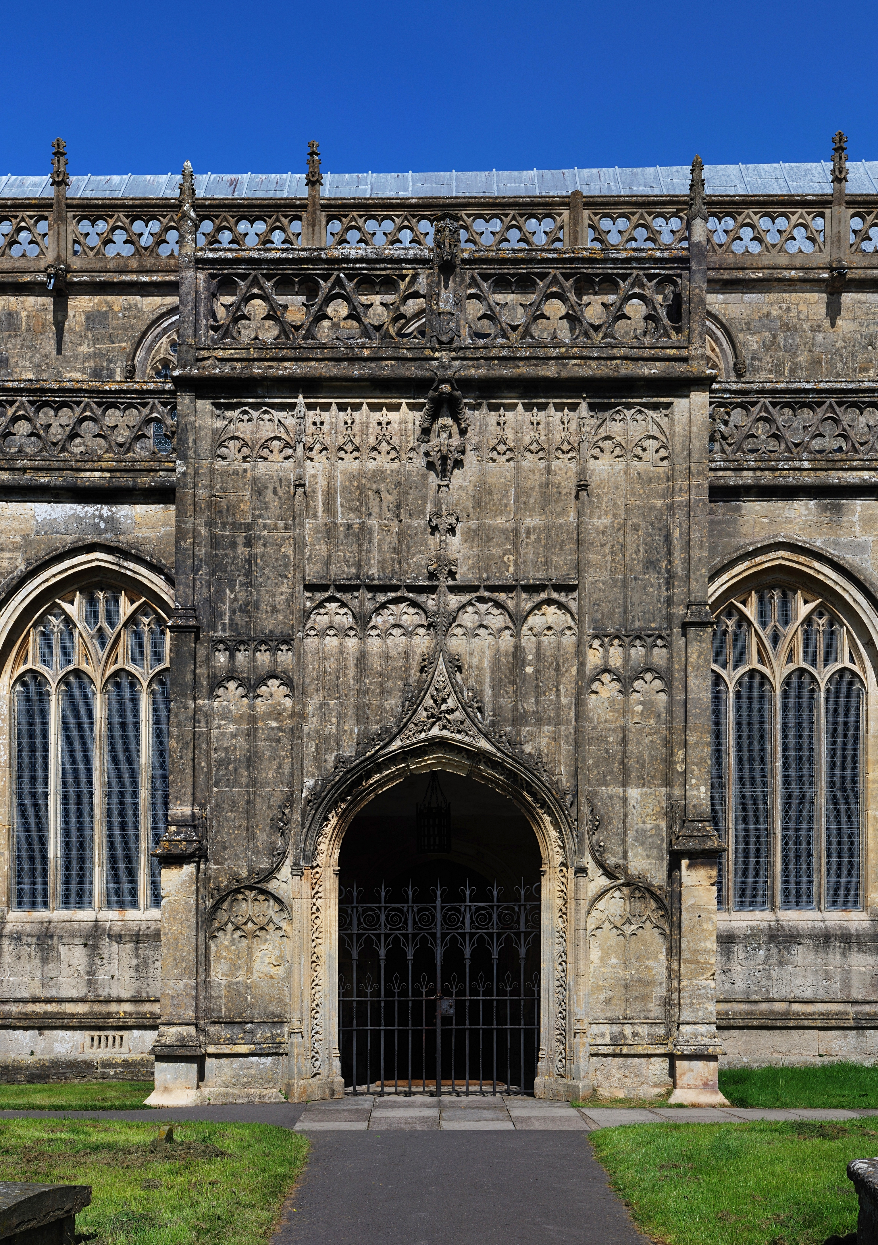 South porch of St Mary's Church, Yatton, North Somerset, UK. The porch was described by Nikolaus Pevsner in Buildings of England (North Somerset and Bristol volume, 'Yatton' entry) as the 'most highly decorated porch in Somerset'. It was built in the later fifteenth century, and is Grade I listed.(Source: Images of England) This image was stitched with Hugin from four pictures taken at: 50mm, ISO 100, f8, 1/320s.